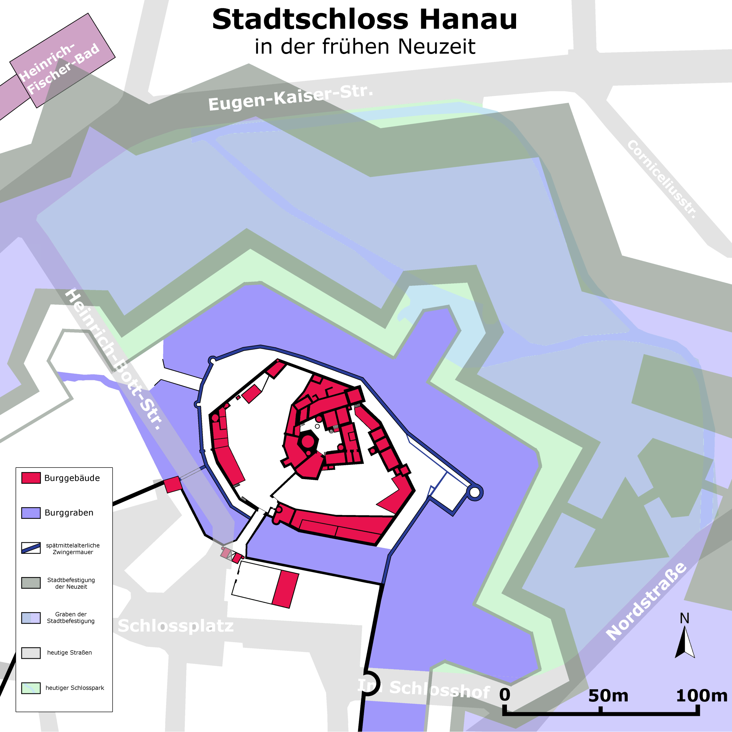 Plan of the castle Hanau.